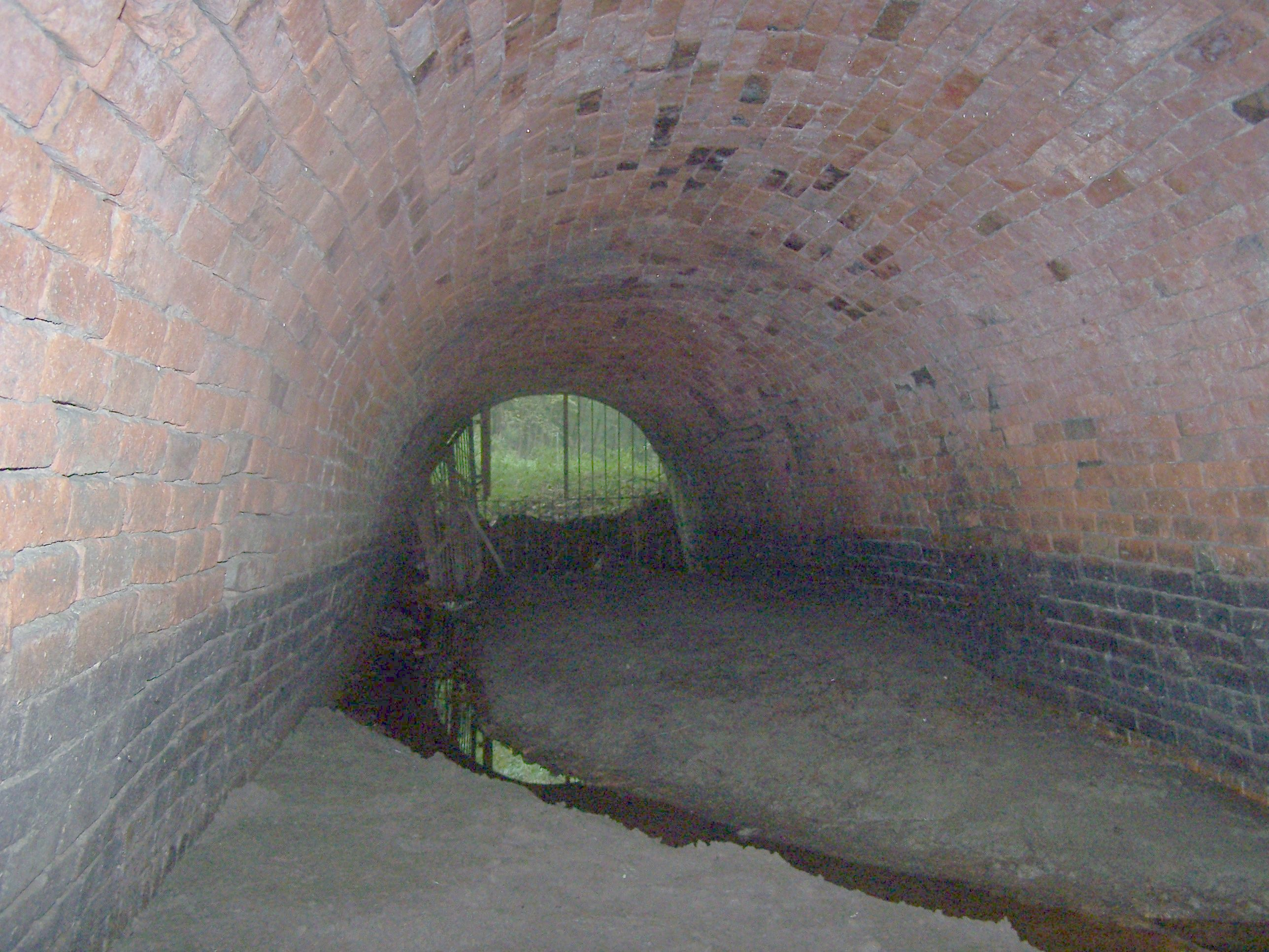 Author:Tina Cordon, Source:Own Picture Tina Cordon 17:10, 14 October 2006 (UTC)